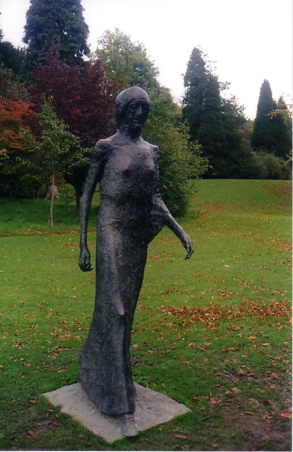 Walking Madonna,Bronze by Dame Elisabeth Frink. Purchased for Chatsworth House in 2002.